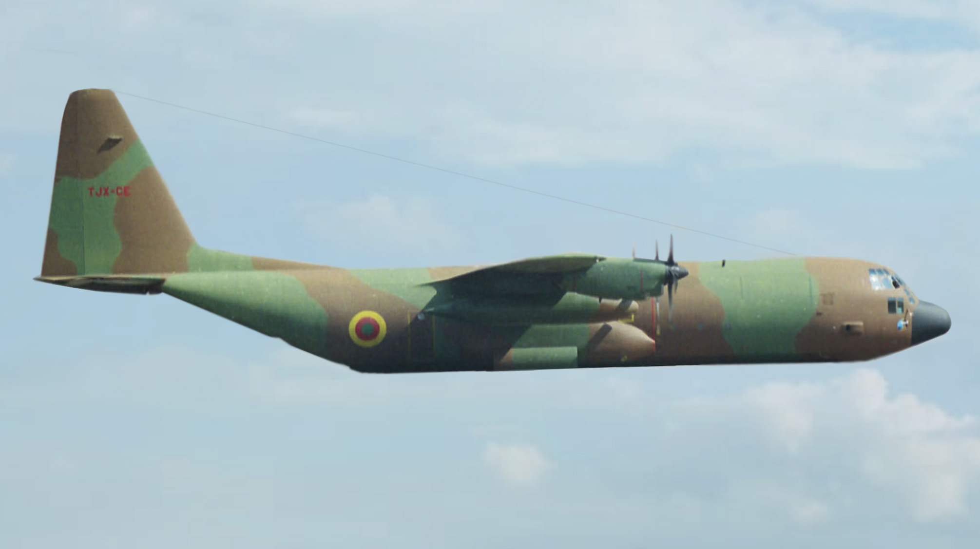 Cameroun AF C-130H TJX-CE modified in flight